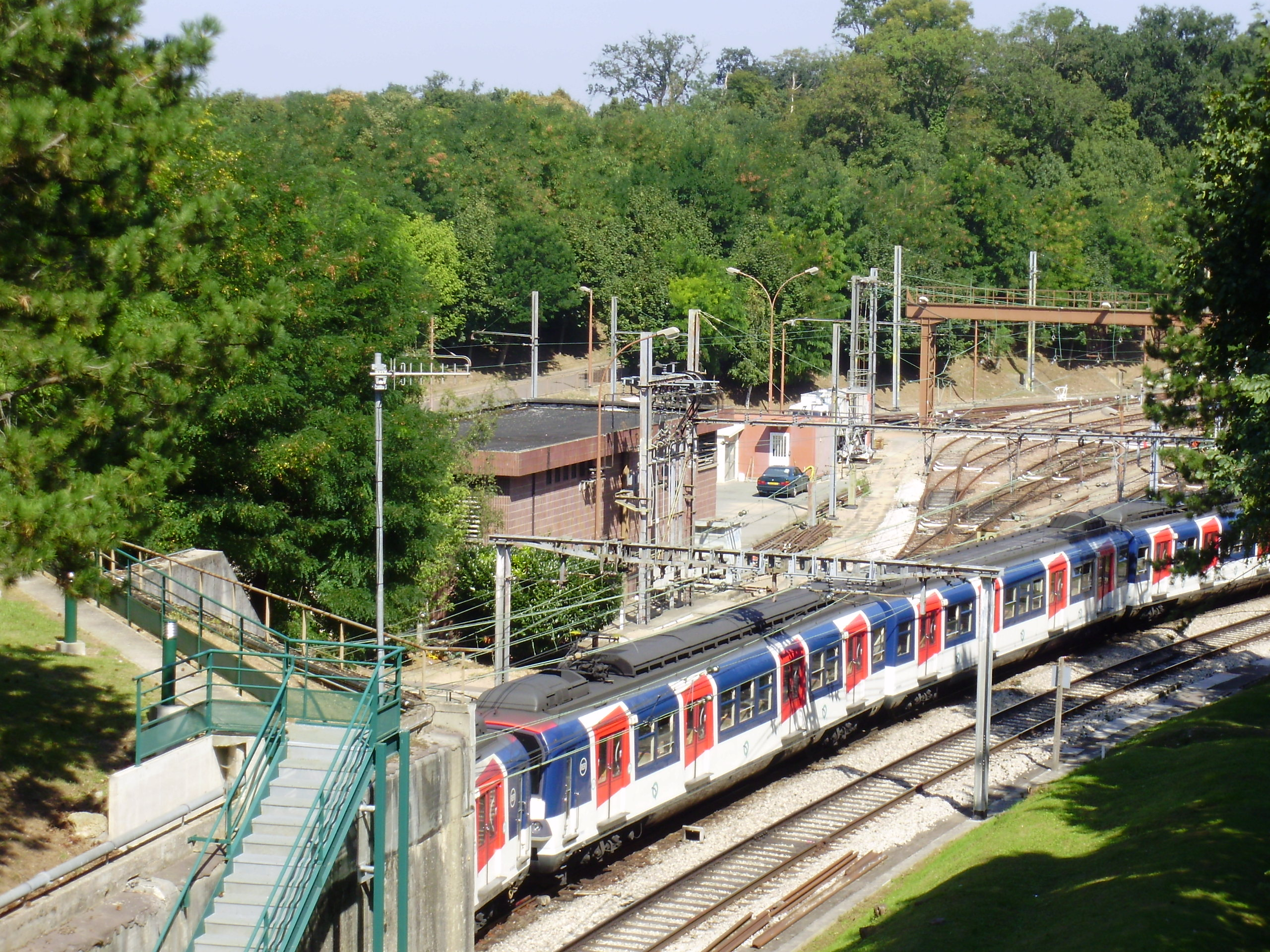 Sidings of the Saint-Germain-en-Laye station, Yvelines, France, with a train leaving the underground station (on the left) and going towards Paris (from the east of the Louis XIV path in the grounds of the Domaine national de Saint-Germain-en-Laye)